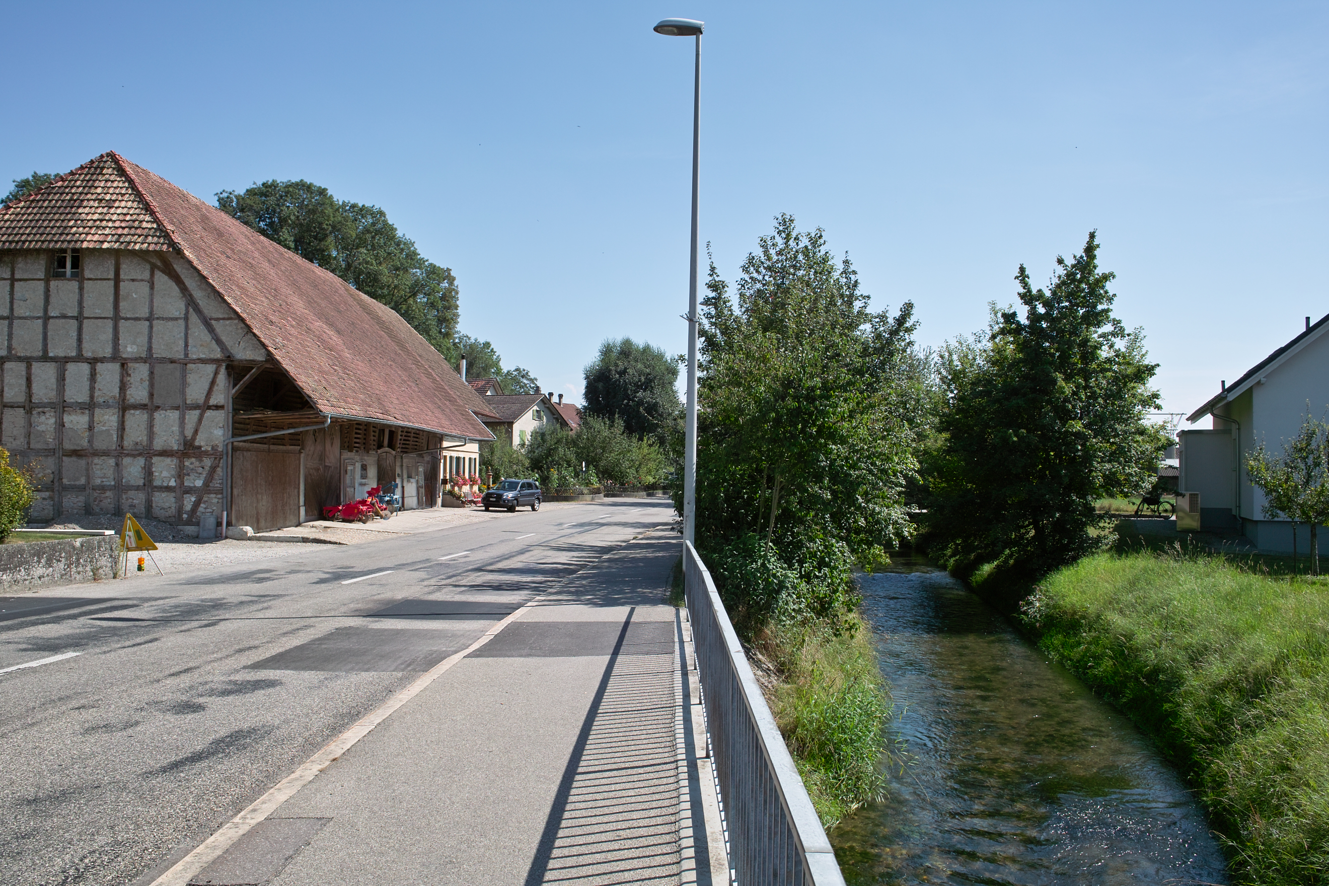 Municipality of Halten, canton of Solothurn, Switzerland. Farmhouse and river Ösch.